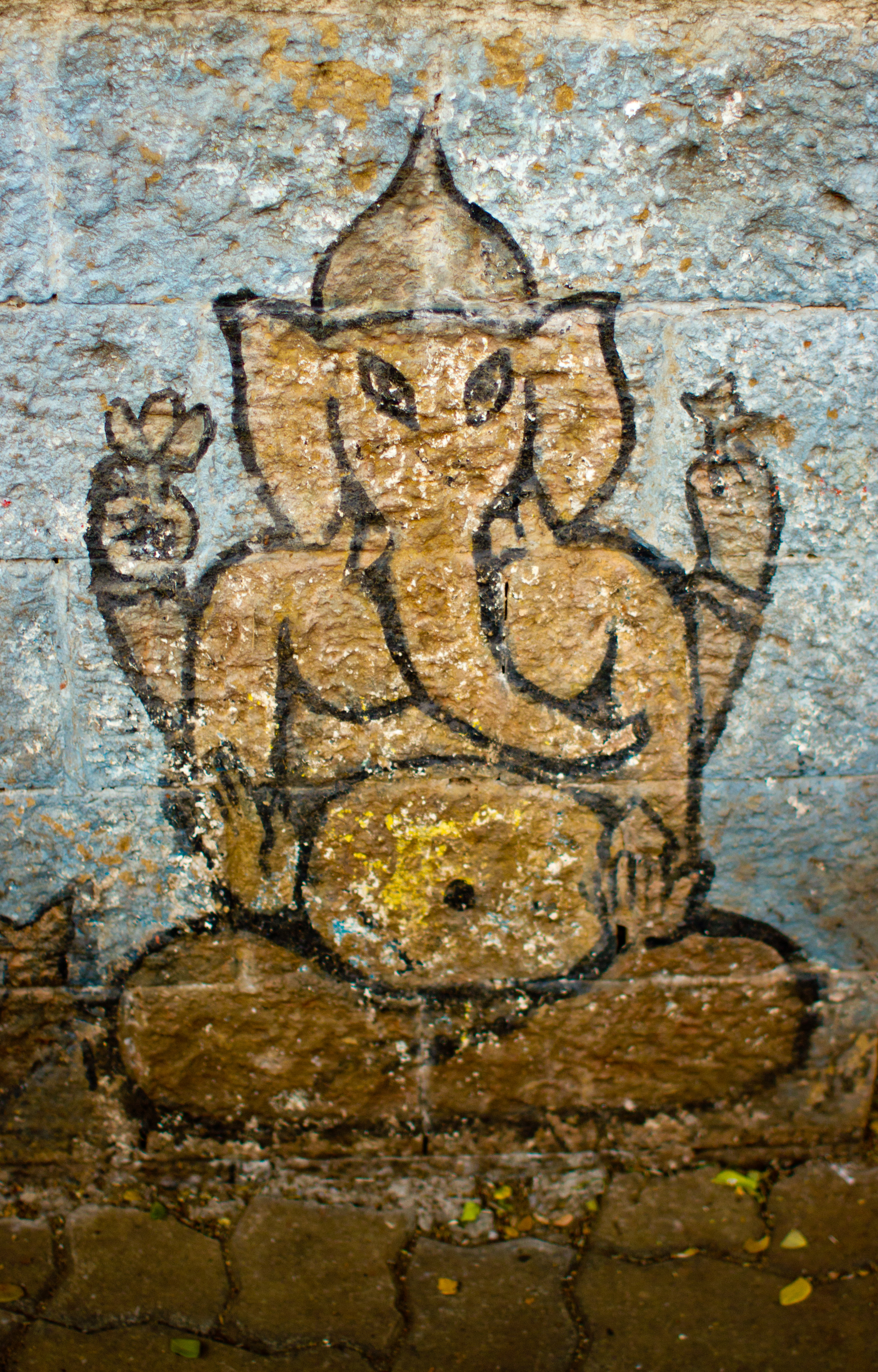 a painting of Ganesha on a wall in Mumbai